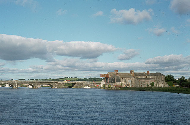 Banagher Bridge and Maltings The old bridge over the Shannon and the old Maltings. Note that the span nearest the shore has been rebuilt to allow more headroom for navigation.